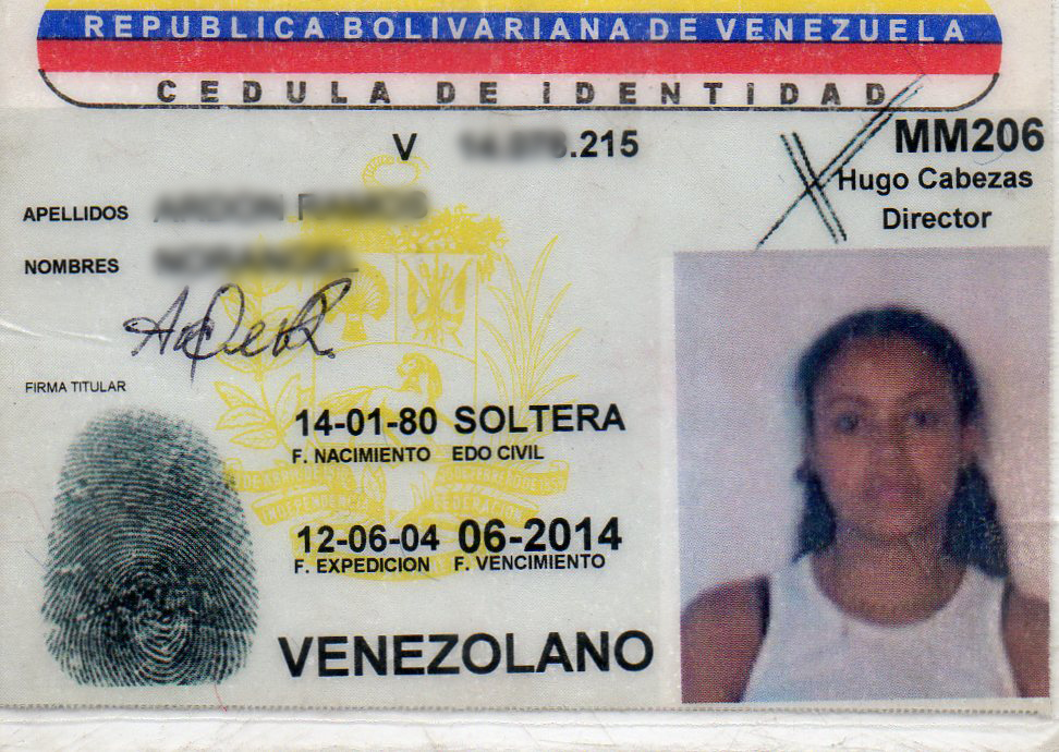 Example of a Venezuelan plastic-laminated, card-sized, paper ID.